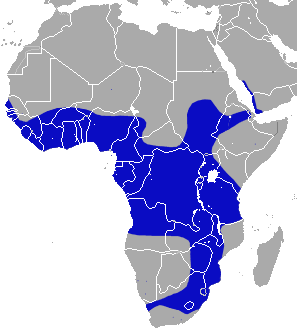 Straw-coloured Fruit Bat (Eidolon helvum) range